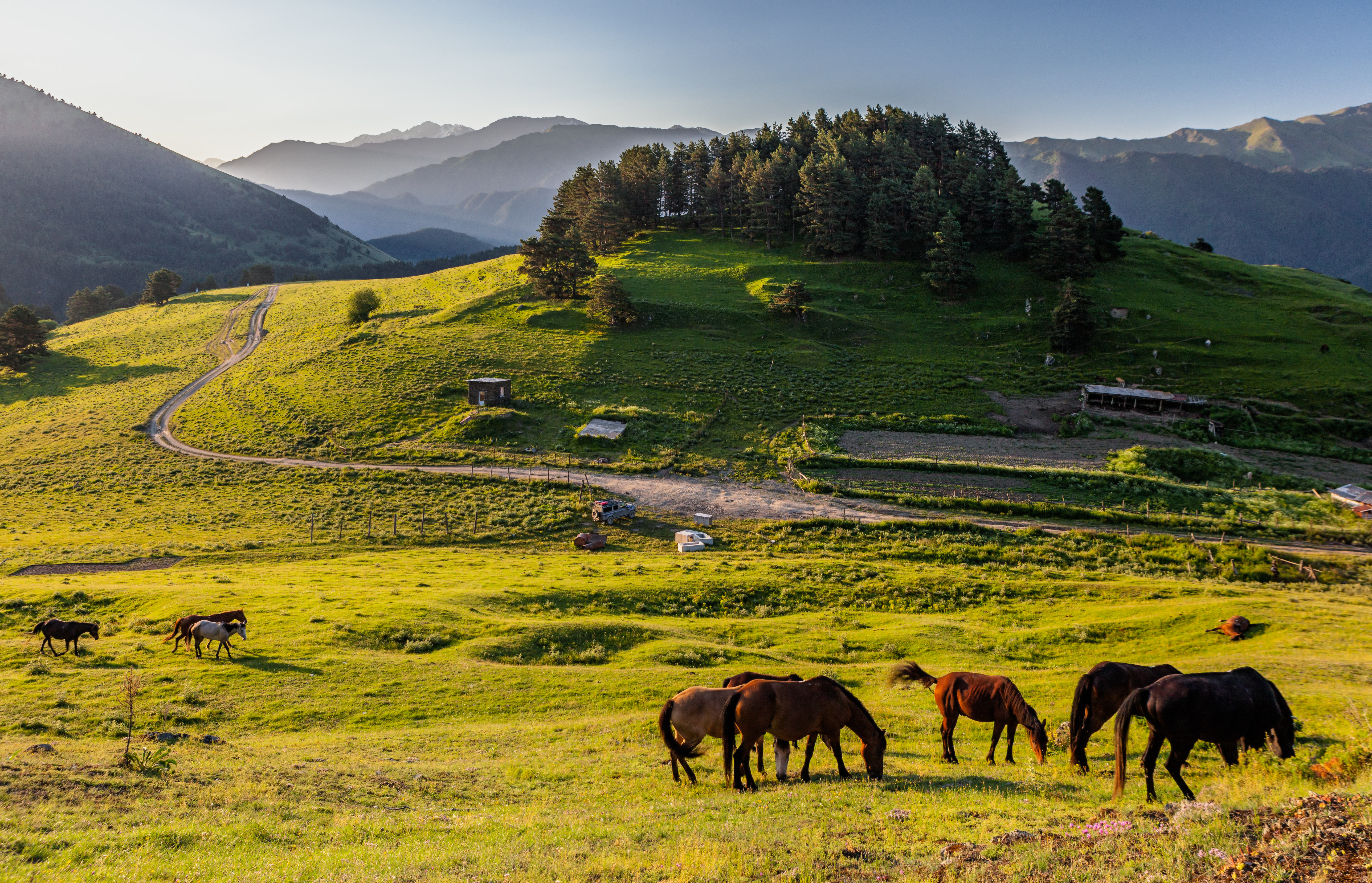 Morning in the Upper Omalo, Tusheti National Park, Georgia.